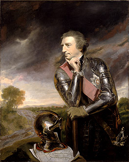 Portrait of Jeffrey Amherst (1717-1797), British general